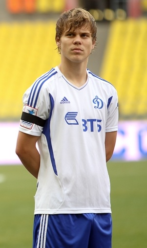 Aleksandr Kokorin